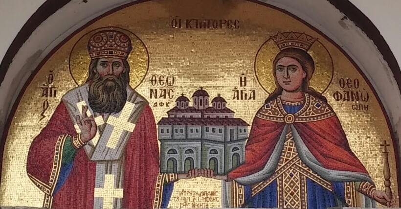 Saints Theona and Theofano in Saint Anastasia Monastery